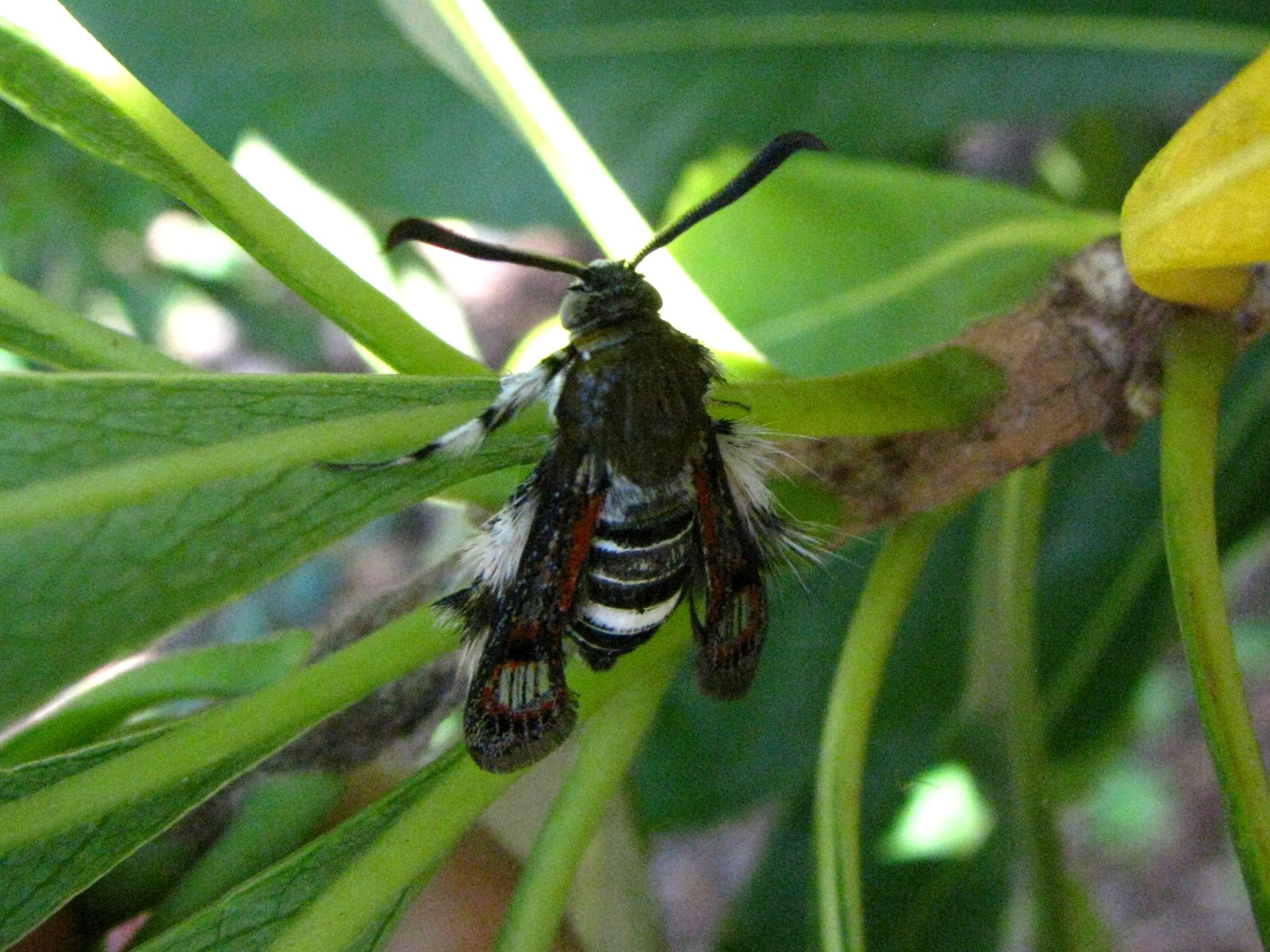 Clearwing moth Lepidoptera: Sessidae Used as a biocontrol for ivy gourd (Coccinia grandis) Cucurbitaceae in Hawaii. This one was resting on hōʻawa (Pittosporum glabrum). Thanks to Forest & Kim Starr for the identification of this species.